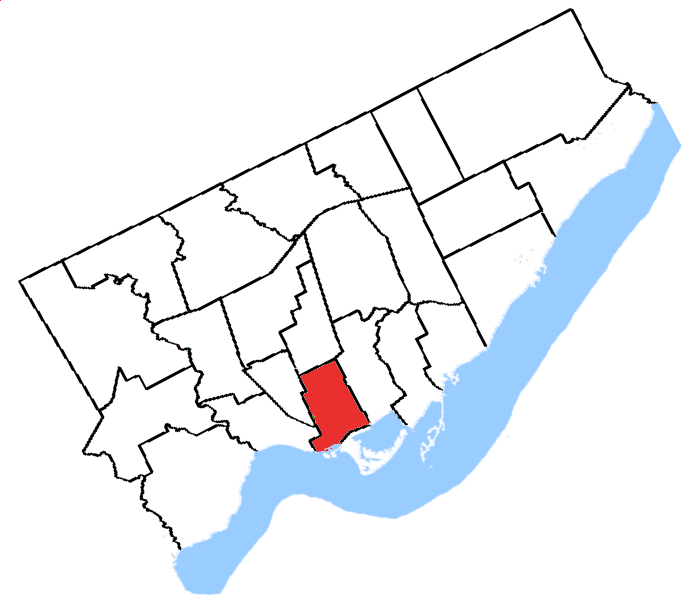 Map of the Trinity—Spadina electoral district showing its borders from 1987 to 1996. Created by SimonP.